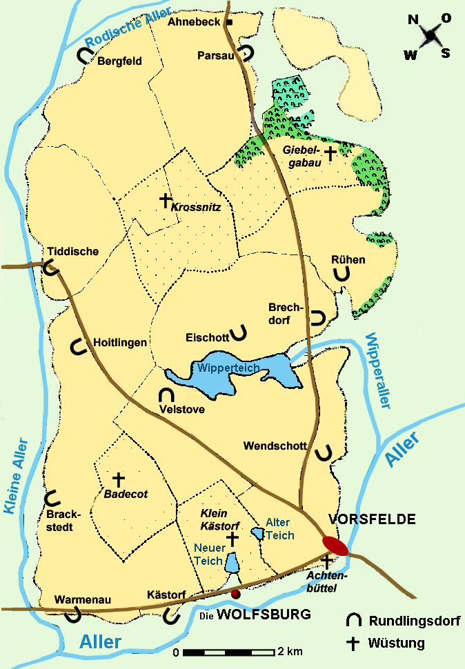 Sketch by the author dated Apr 2005 of the route of the Kleine Aller river west of the Vorsfelder Werder region of Lower Saxony, Germany, based on an 18th century map.